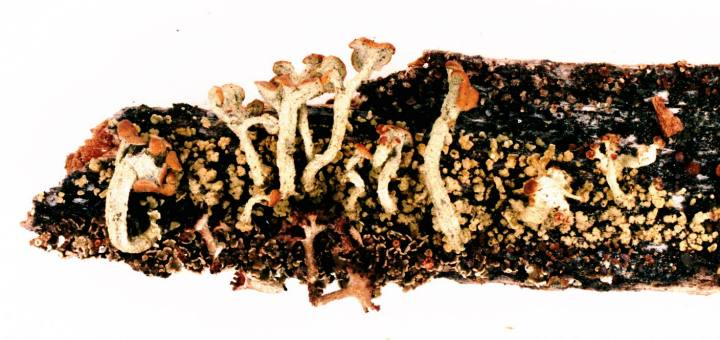 Cladonia botrytes (K.G. Hagen) Willd., 1787 (photograph of a herbarium specimen) Growing on old wood in a sunny exposure along the N side of the Montreal River, E side of Highway 17, Ontario, Canada; collected and identified by Richard E. Riefner (No. 81-501, 23 Jul 1981); specimen is now in the Lichen Herbarium of the New York Botanical Garden.